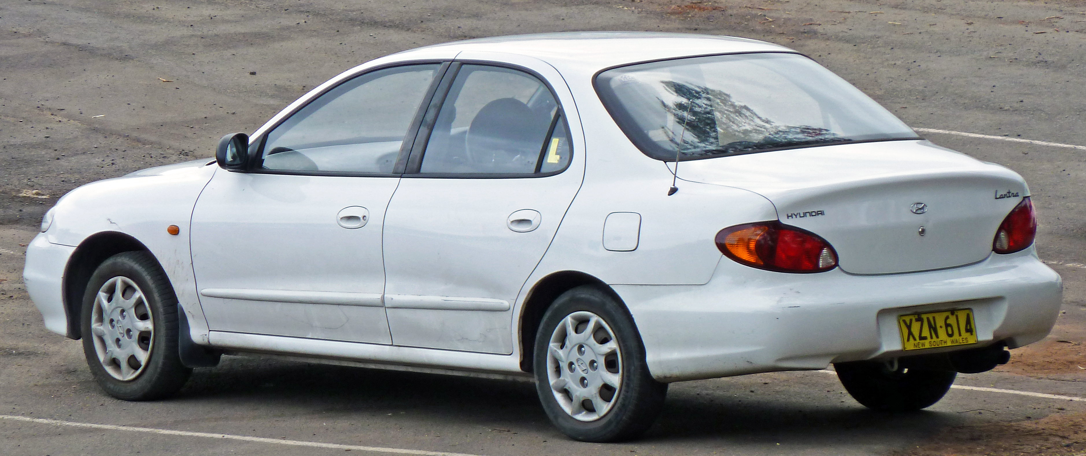 2000 Hyundai Lantra (J3) SE sedan. Photographed in Cronulla, New South Wales, Australia.